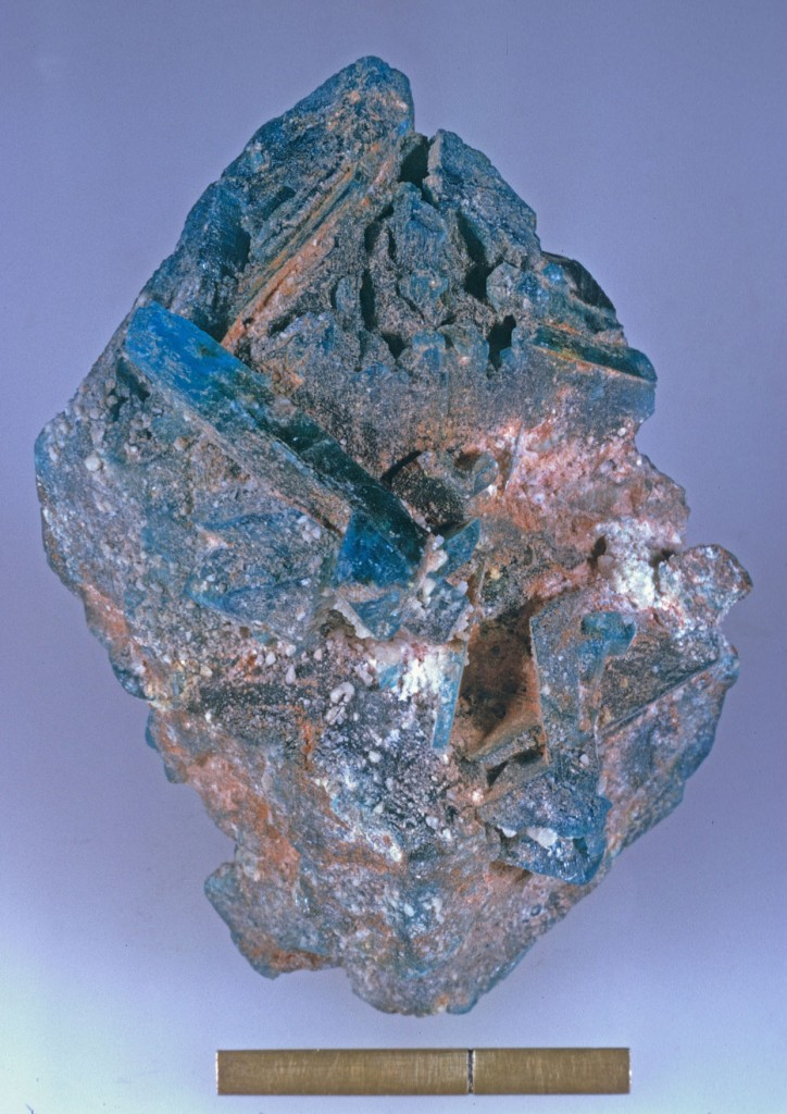 Cuprian Melanterite, variety of Melanterite Locality: Chuquicamata Mine, Chuquicamata District, Calama, El Loa Province, Antofagasta Region, Chile Cuprian Melanterite var. pisanite. Specimen is from the collection of Kay Robertson #3751 (1974) - Scale at bottom of image is one inch with a rule at one cm.